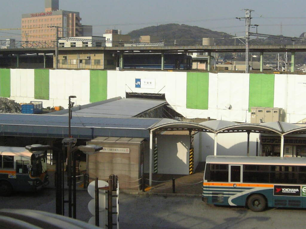 Shimonoseki Station east side that has been temporarily renovated after the fire in 2006